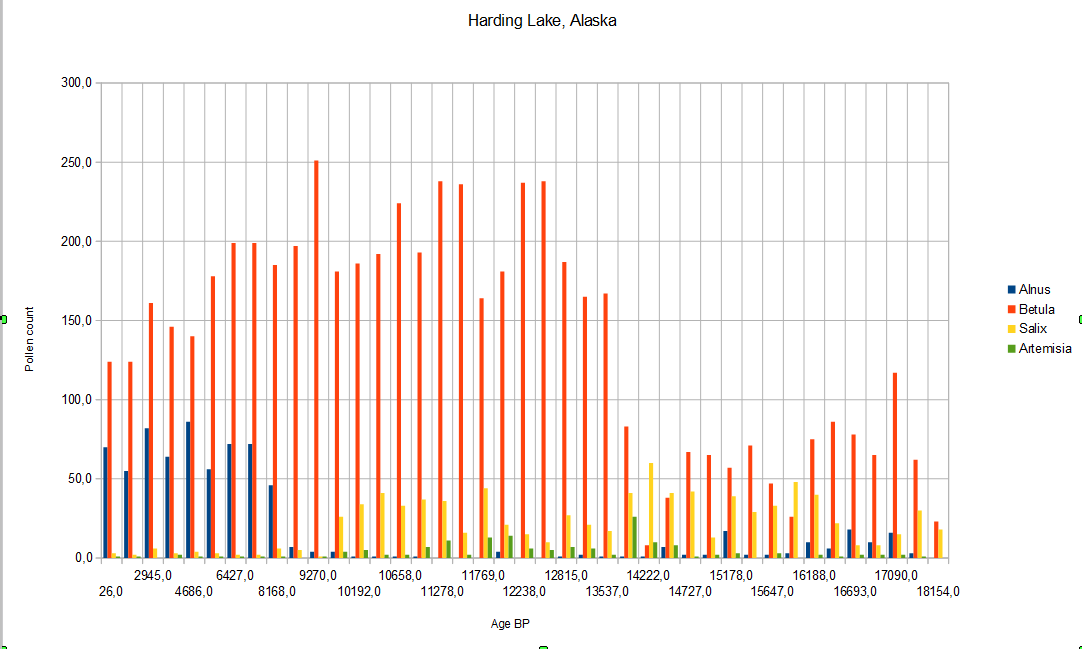 The Alnus/Betula/Salix/Artemisia pollen data samples from Harding Lake, Alaska inland, Near Fairbanks. There was rapid increase of Betula (birch) pollen at Bölling/Alleröd time ca. 15000 - 13500 cal. BP. Alnus increases afrte 8200 BP. This file is created with OpenOffice and Dos Tilia (run in DosBox) , File in Dos Tilia "general format" (GPD .txt) is esported in WKS format, then processed and chart generated. This chart is based on data available at ftp://ftp.ncdc.noaa.gov/pub/data/paleo/pollen/asciifiles/fossil/ascfiles/gpd/harding.txt on site Ager, T.A., Harding Lake (HARDING) Global Pollen Database ORIGINATOR (CONTRIBUTORS): Ager, T.A. ONLINE RESOURCE (When Citing Data)